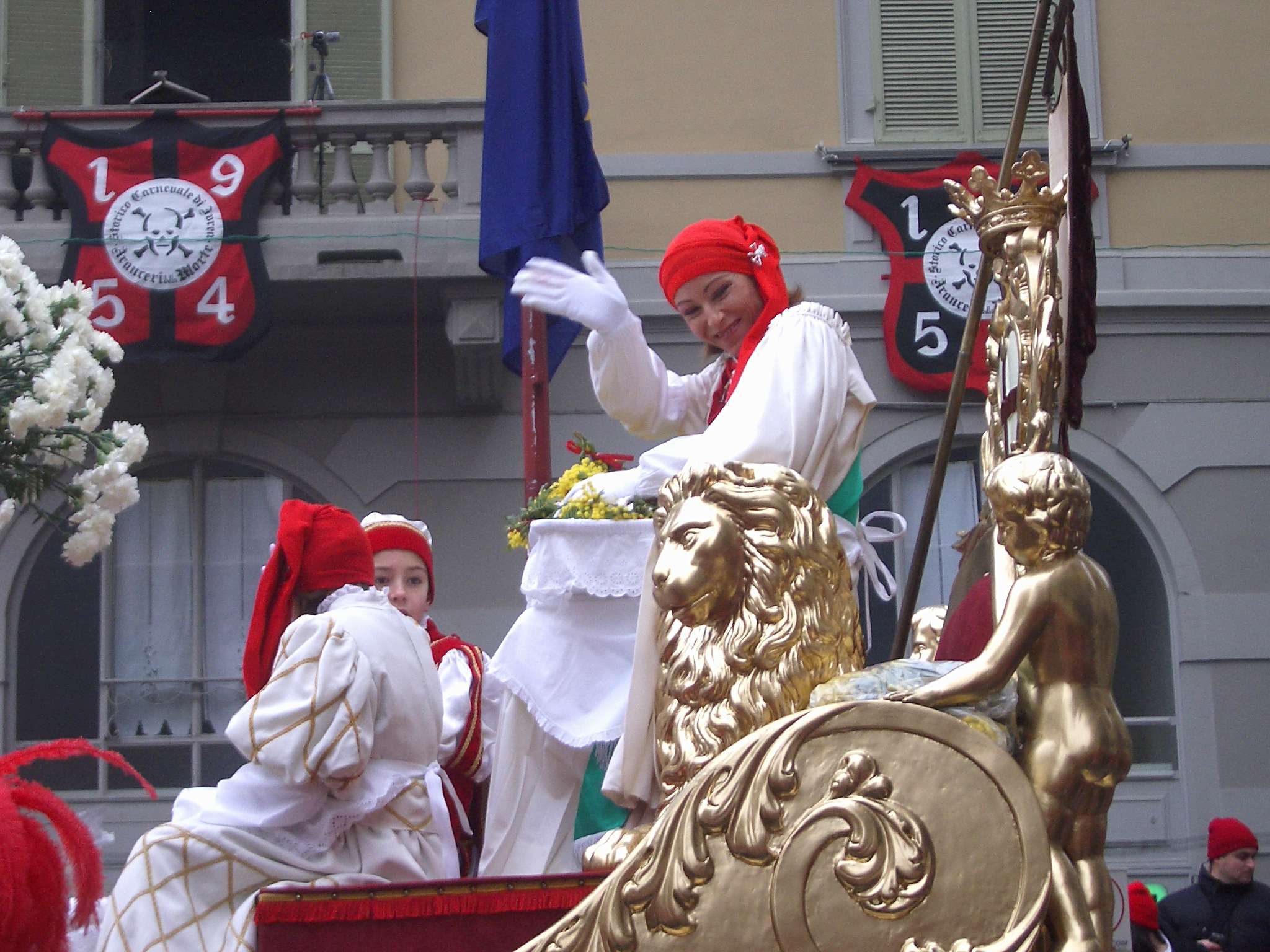 Carnival of Ivrea, La Mugnaia (The miller's daughter, heroine of the carnival)